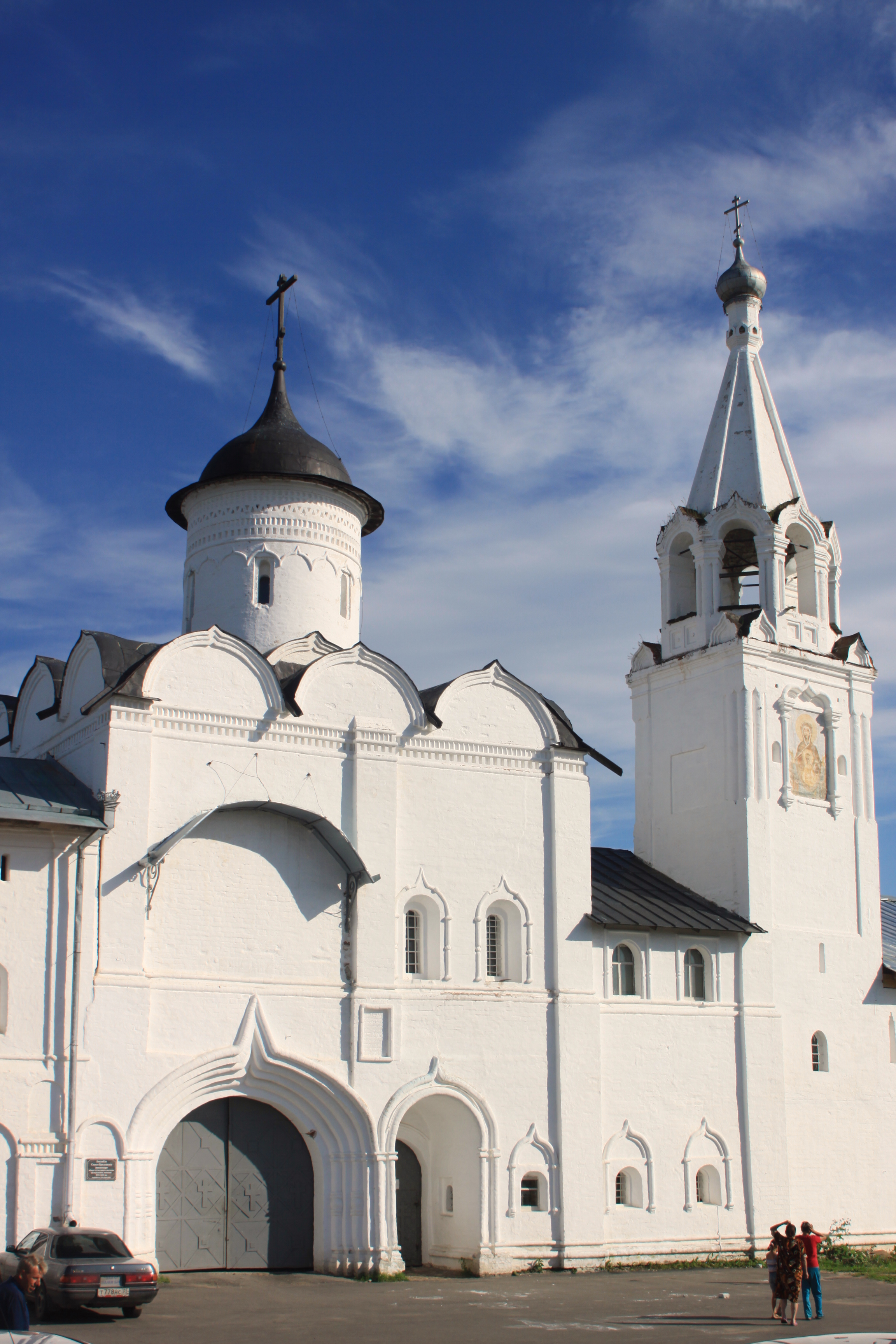 Voznesenskaya_Gate_Church_with_its_Belfry in Prilutsky monastery